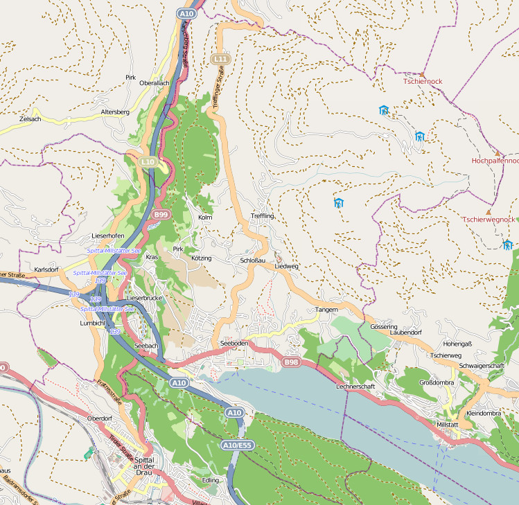 This map may be incomplete, and may contain errors. Don't rely solely on it for navigation.